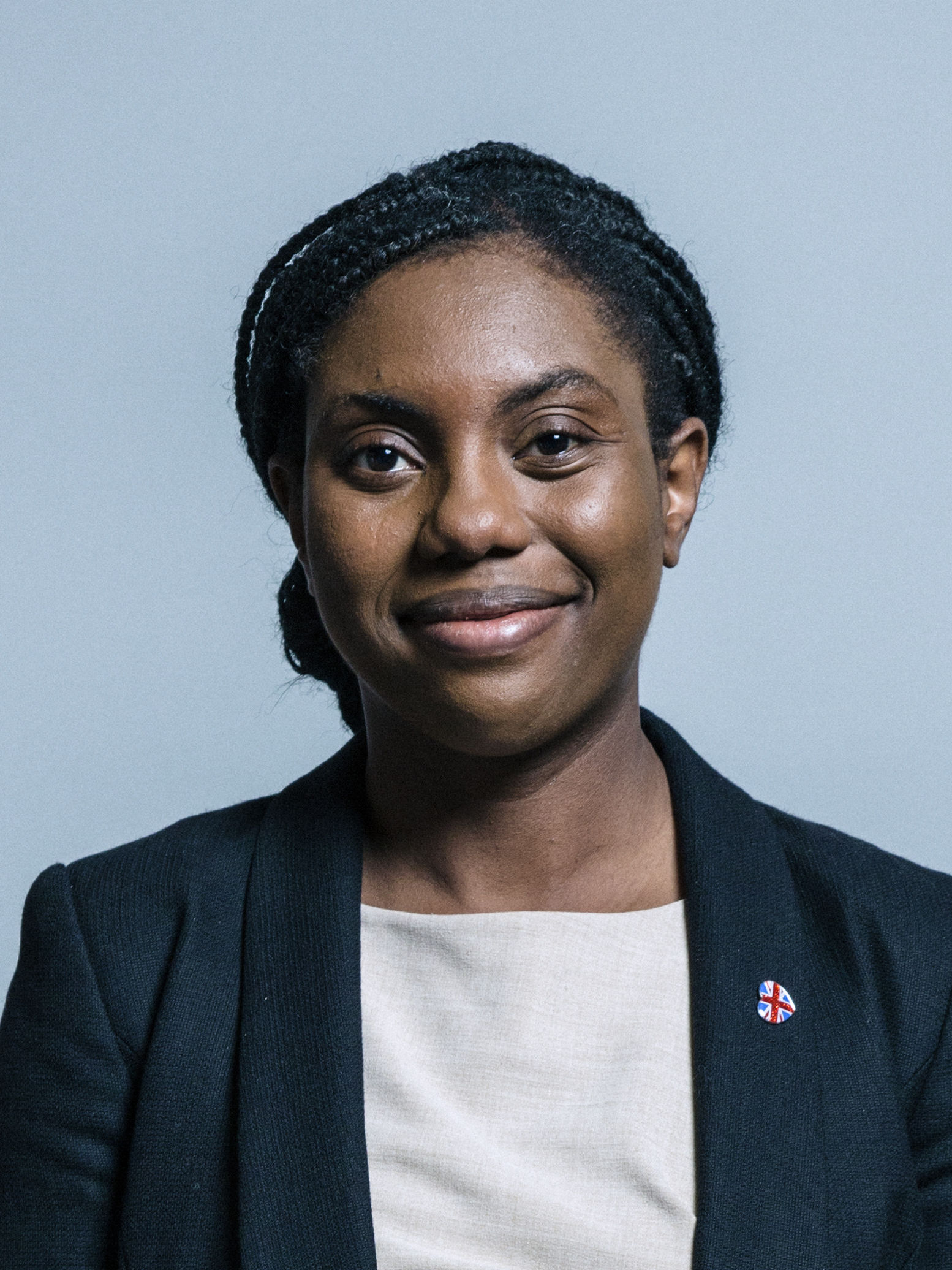 Official portrait of Mrs Kemi Badenoch